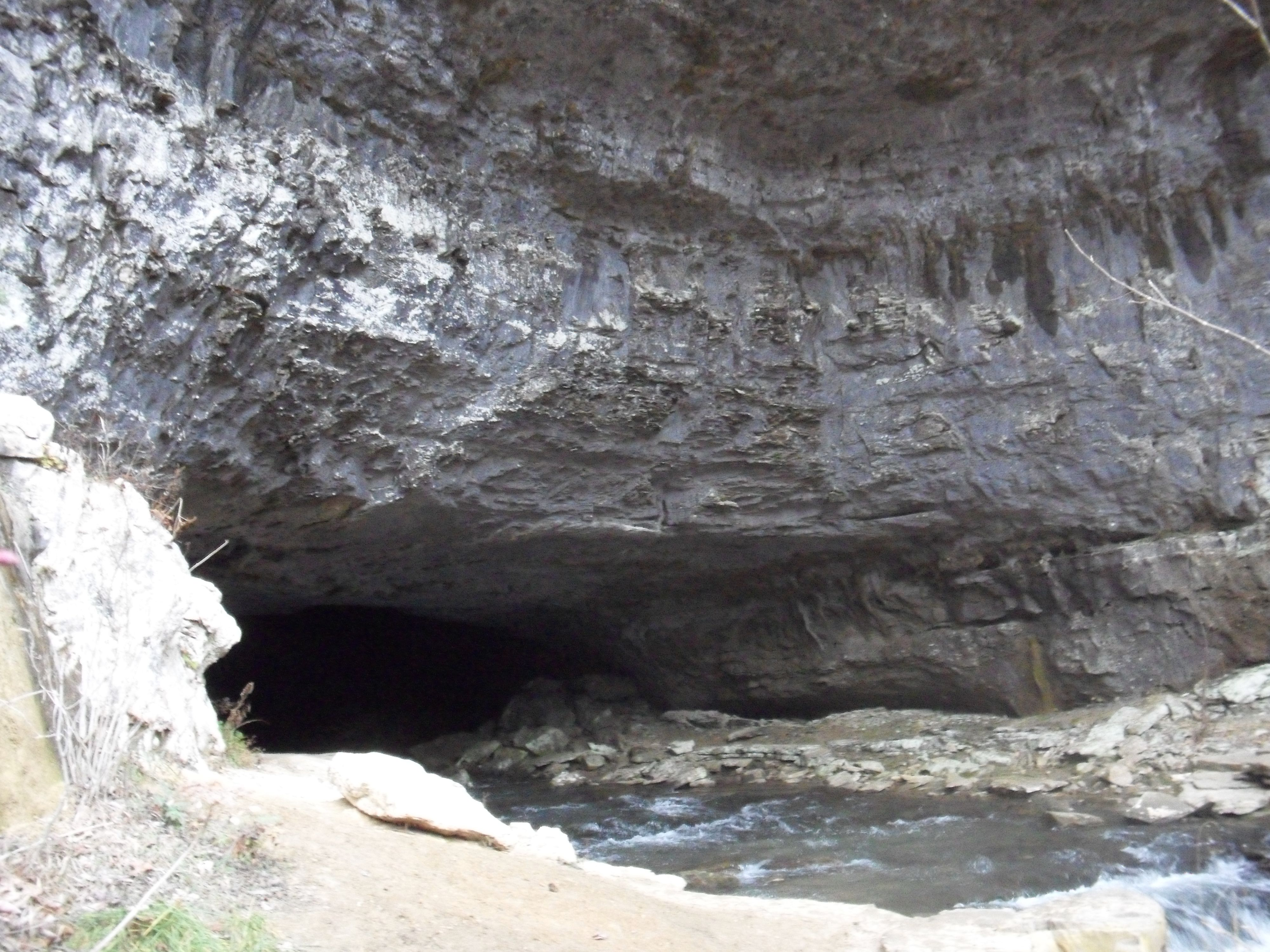 Lost Cove Cave, Tennessee, USA: Main "Buggytop" entrance from below with Lost Creek flowing out.